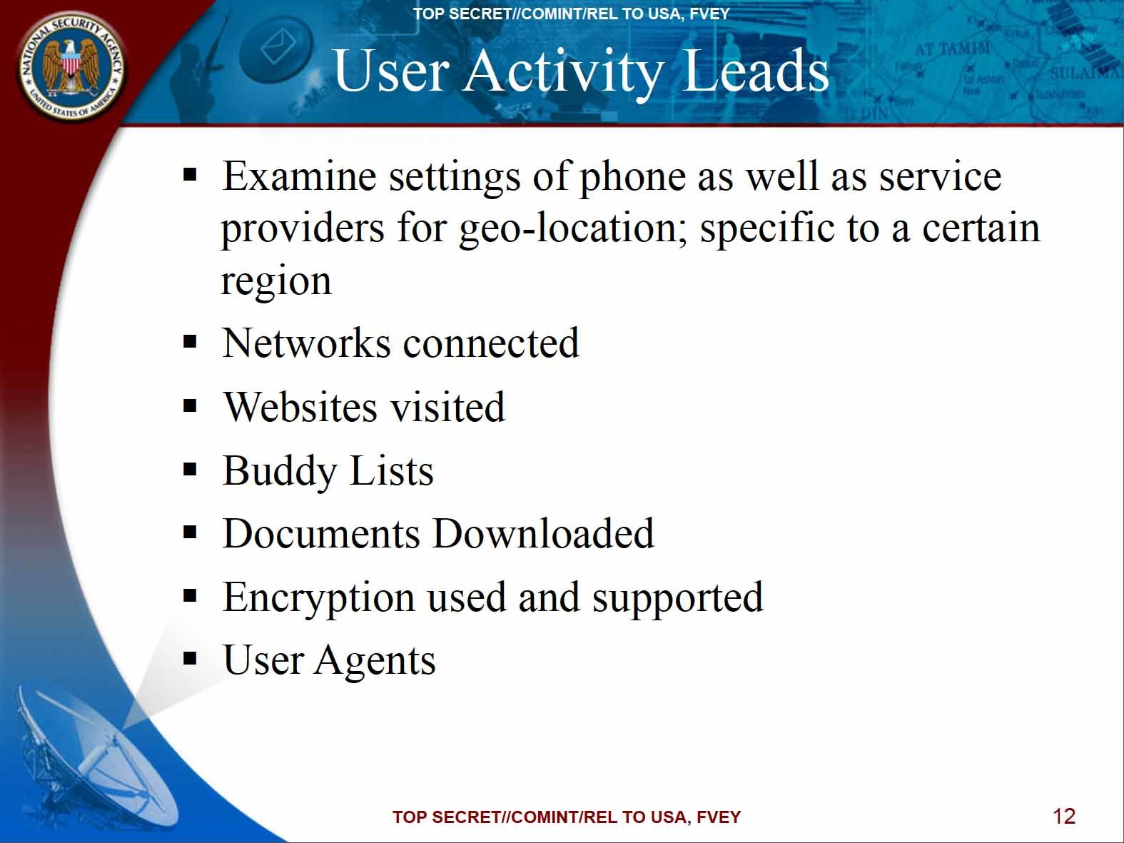 An N.S.A. document from a May 2010 meeting about "User Activity Leads"